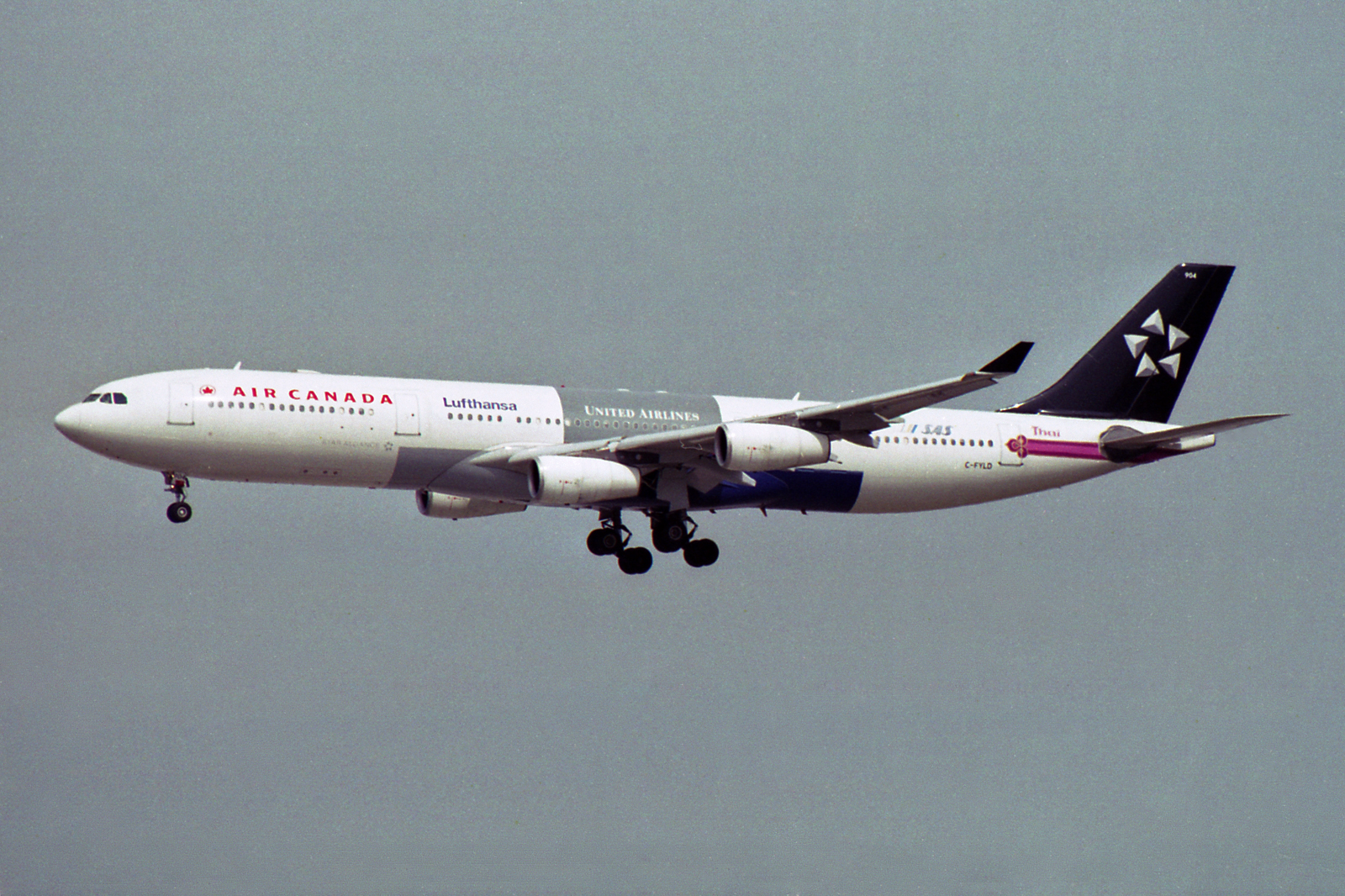 Frankfurt am Main (Rhein-Main AB) (FRA / EDDF / FRF) Germany 5.2003 First Flight 4.1997 Del. 4.1997 to Air Canada C-FYLD (PICTURE) Iberia EC-KSE Aerolineas Argentinas LV-FPU